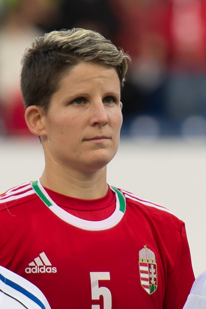 FIFA Women's World Cup 2015: Qualifying Round St. Pölten, 13.09.2014 Tímea Gál